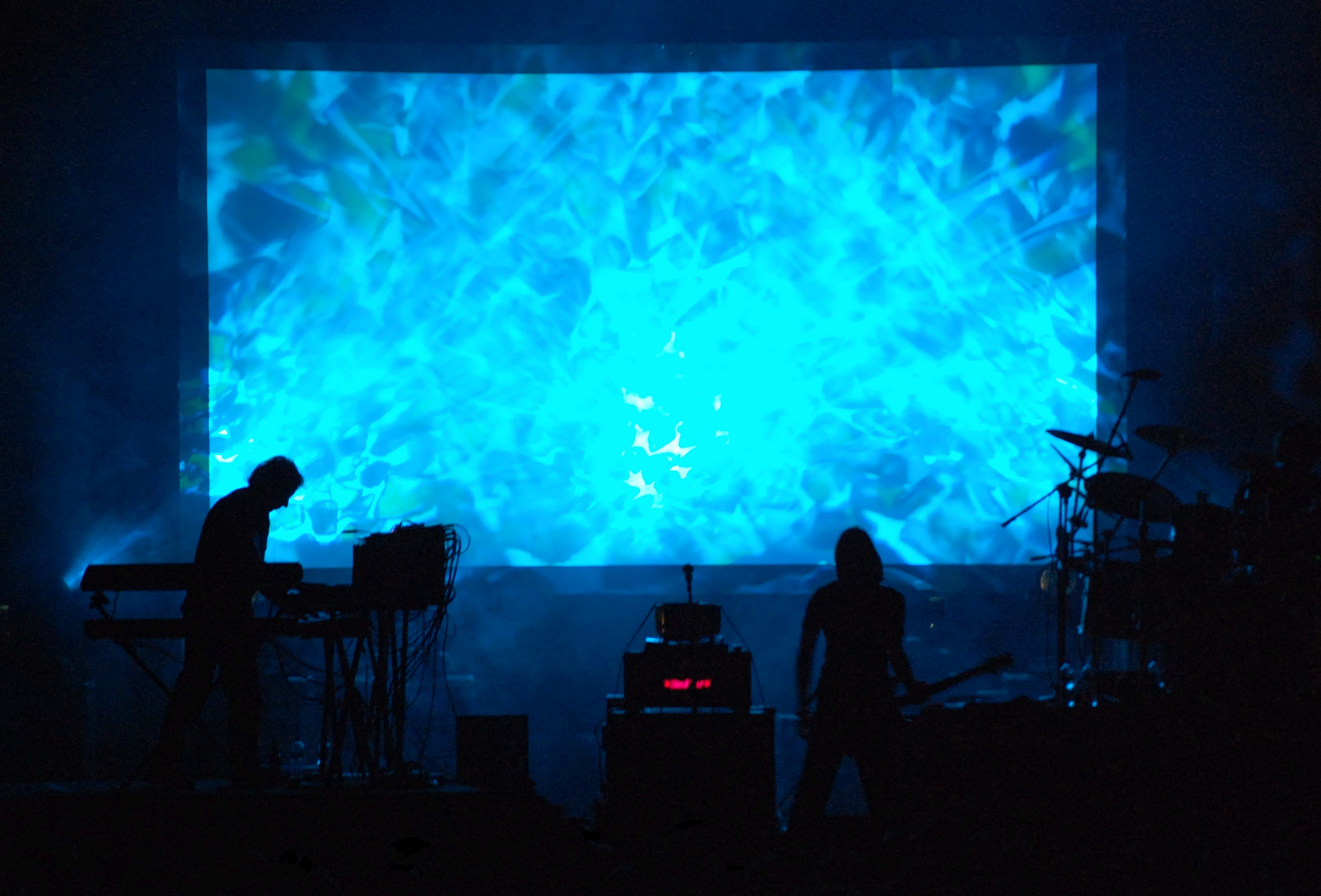 Porcupine Tree live at Hamburg, Germany, in November 29, 2007.